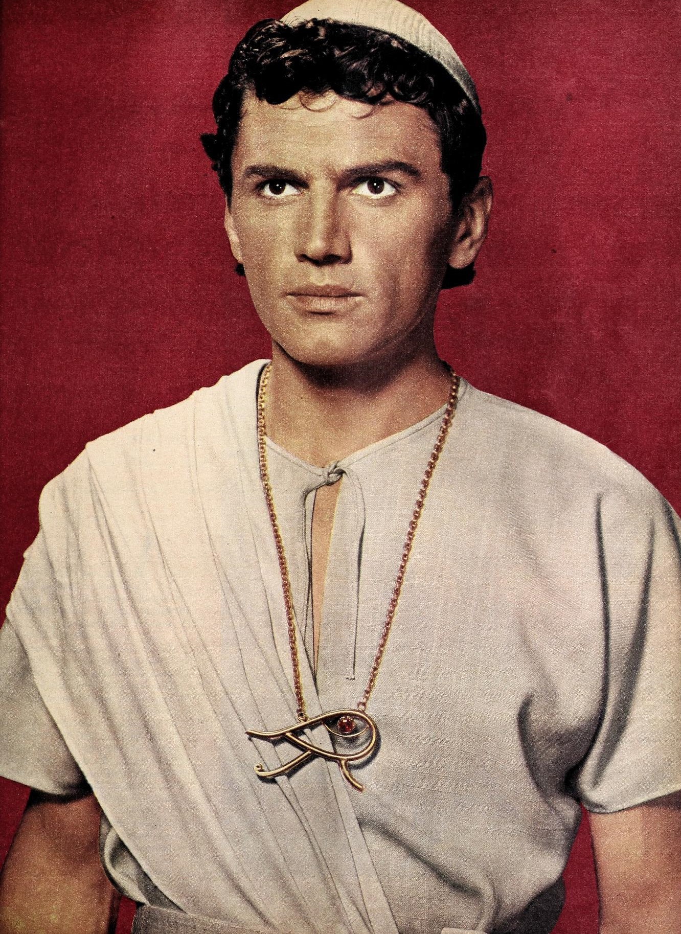 Edmund Purdom in costume for The Egyptian, 1954